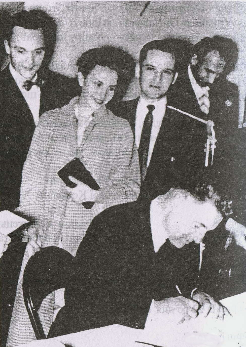 Hetmanych (Prince) Danylo Skoropadsky during an official visit to the USA on a meeting with Ukrainian community